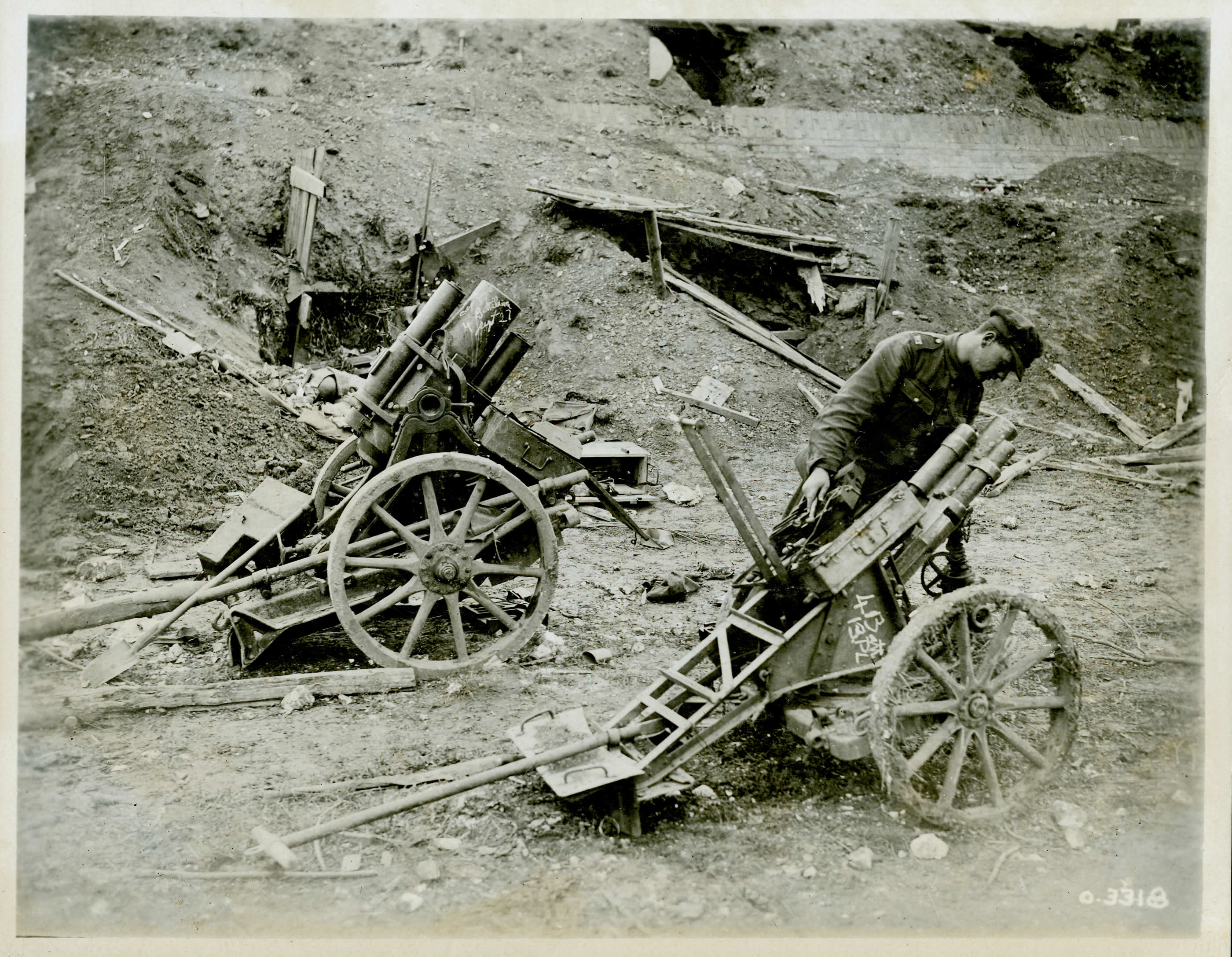 German mortars captured during the Canal du Nord operation. One of the mortars has been marked by the 4th Battalion, which captured it on 27 September. Units typically chalked captured guns, mortars, and machine-guns as signs of their prowess and victories. The mortar in the foreground with the soldier is a 7.58 cm Minenwerfer; the mortar in the background (chalked 4th Battalion) is a 17 cm Minenwerfer 1913 short model.